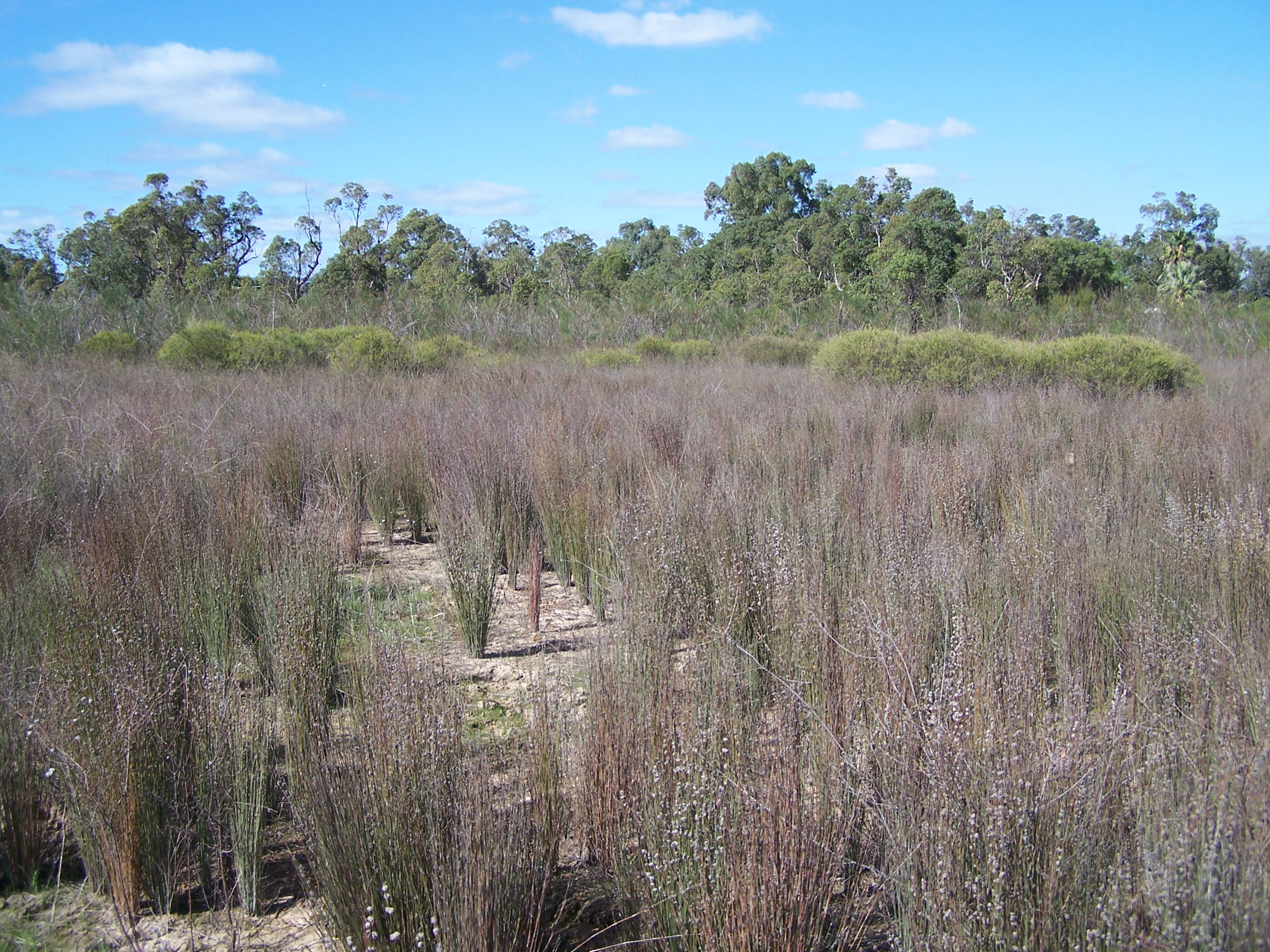 View looking South from the centre of the Brixton Street Wetlands